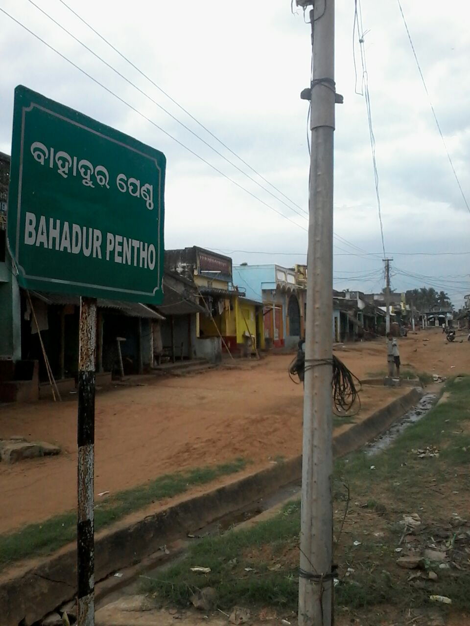 Bahadur Pentho Bus Stop